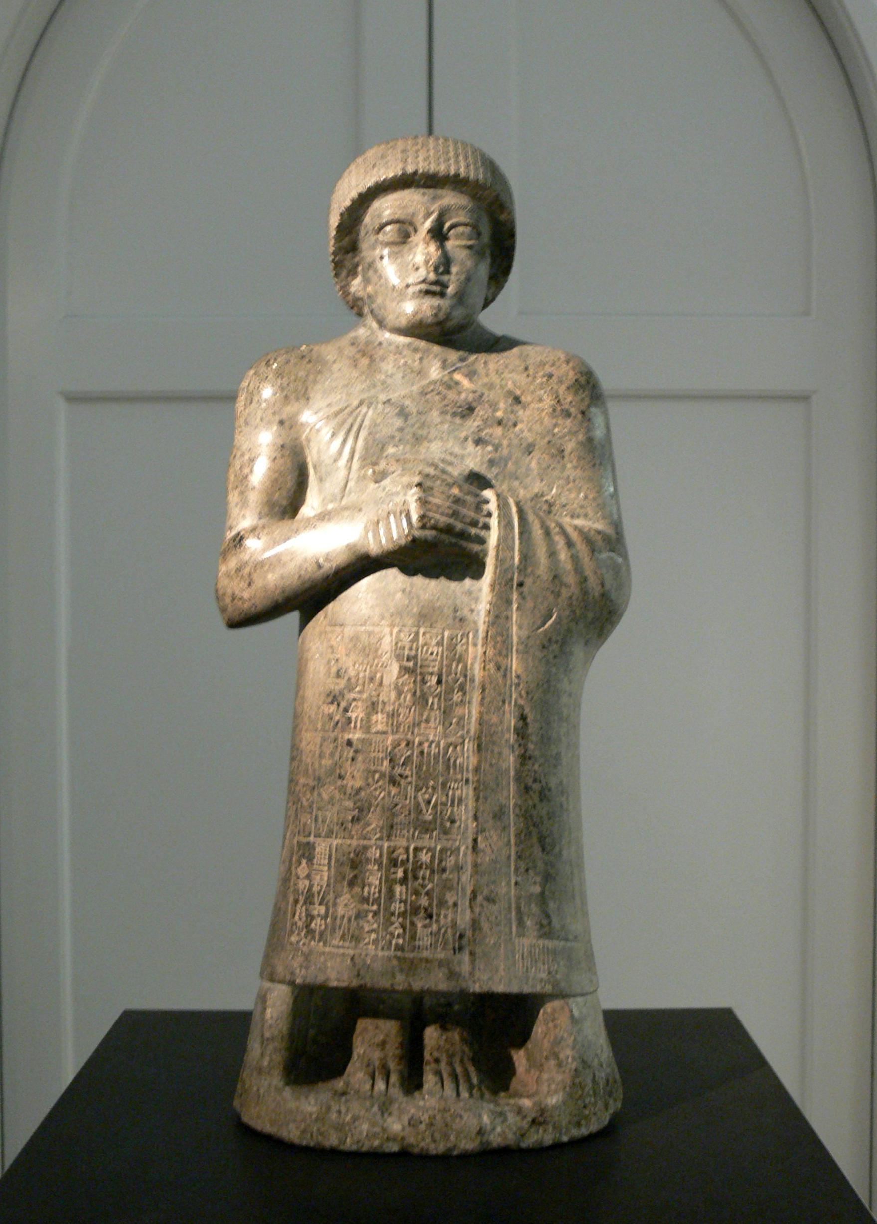 Ny Carlsberg Glyptothek, Copenhagen. Sumerian statue of Gudea of Lagash.